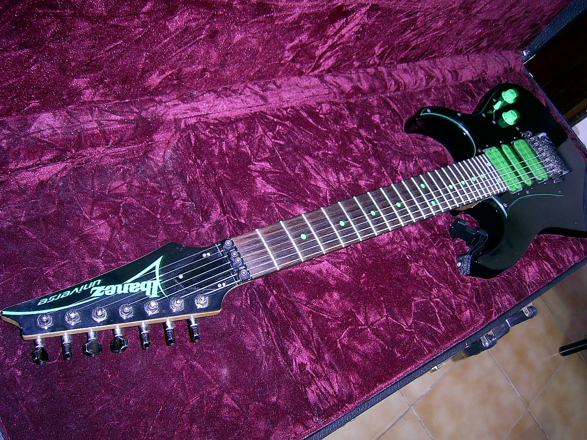 Ibanez Universe UV7BK, year 1996, inside original hardcase. Seven string guitar.